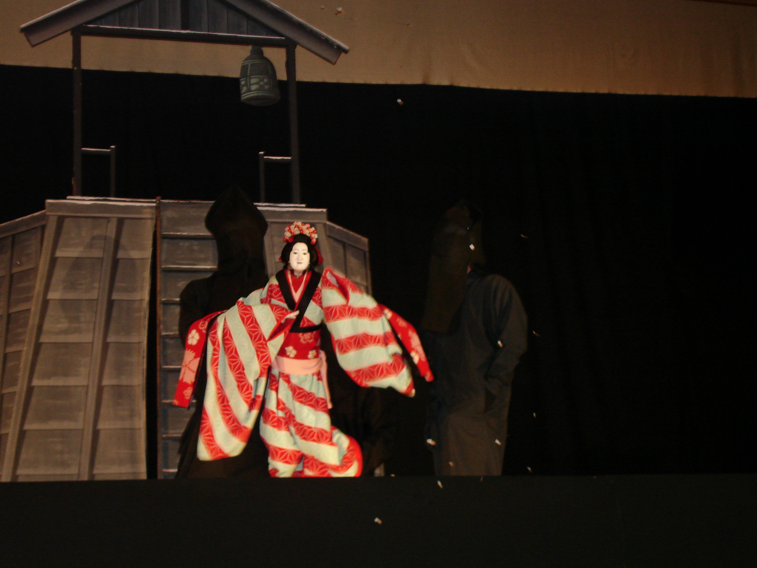 In Japan, Bunraku (puppet play) developed over a period of more than twelve centuries as the popular entertainment of the people.